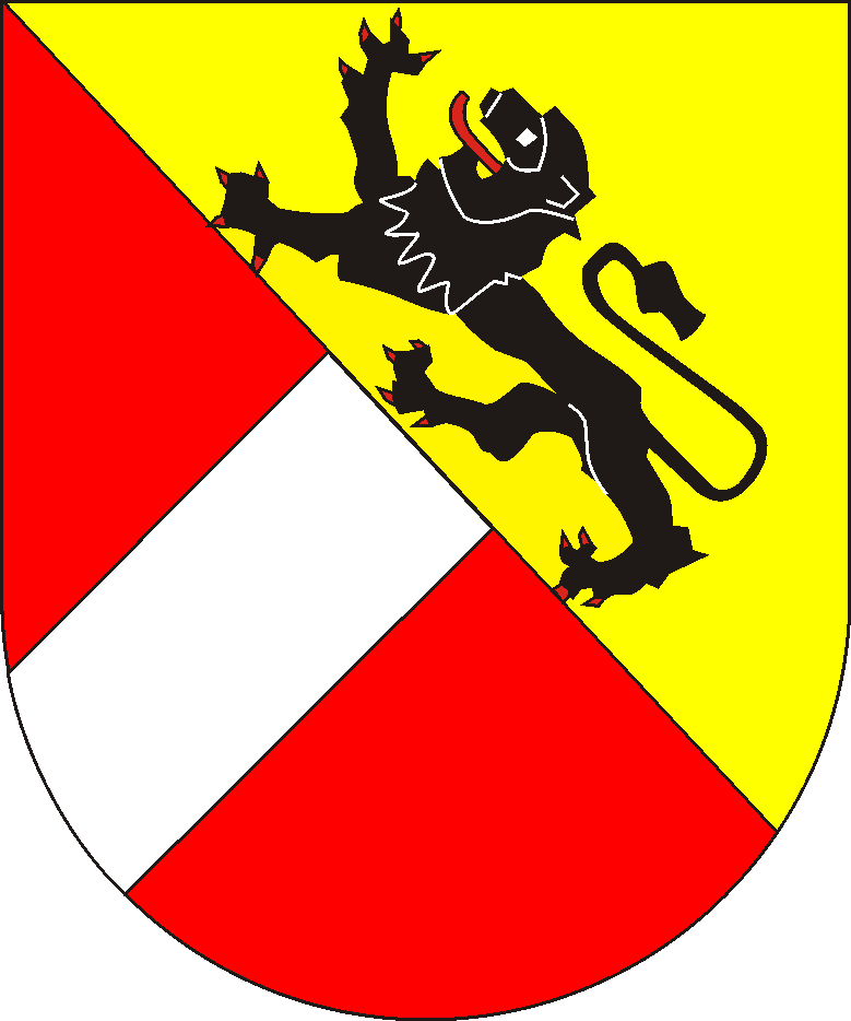 coats of arms of the bishop of Lavant